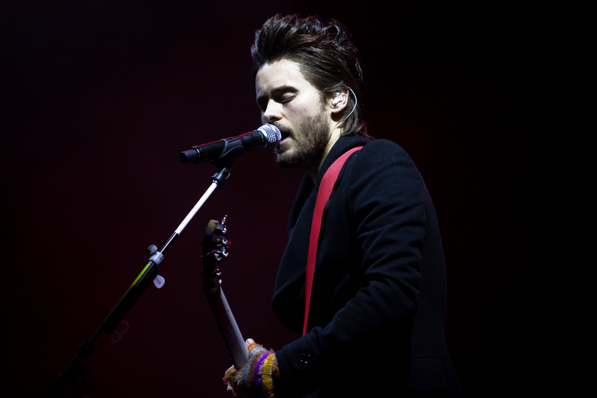 Thirty Seconds to Mars